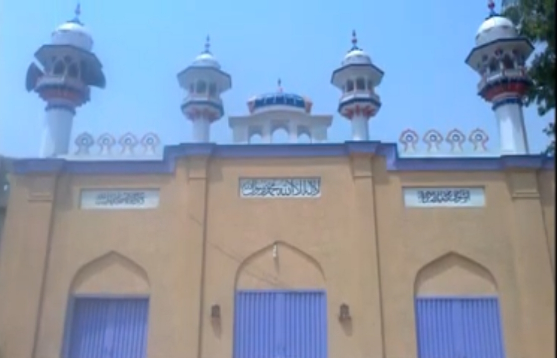 Village scene Dera Bhattian